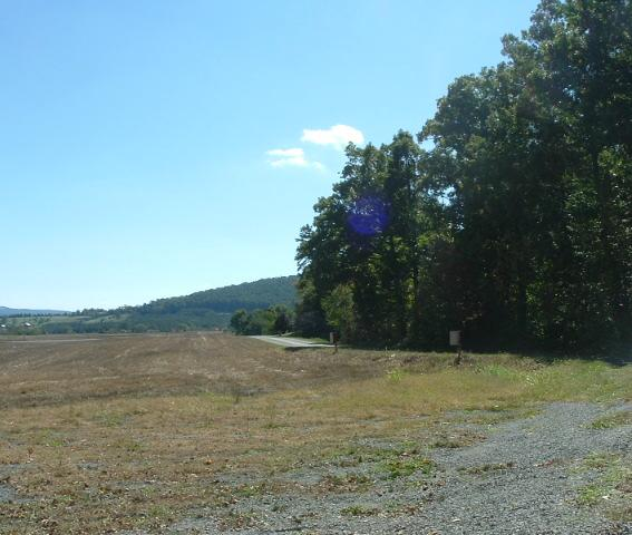 Location of the gate to Crittenden Lane, and approximate location at Cedar Mountain where general Charles Sidney Winder was standing when mortally wounded by a Union shell. Facing south. Photo by M. Stewart, 10-16-05.